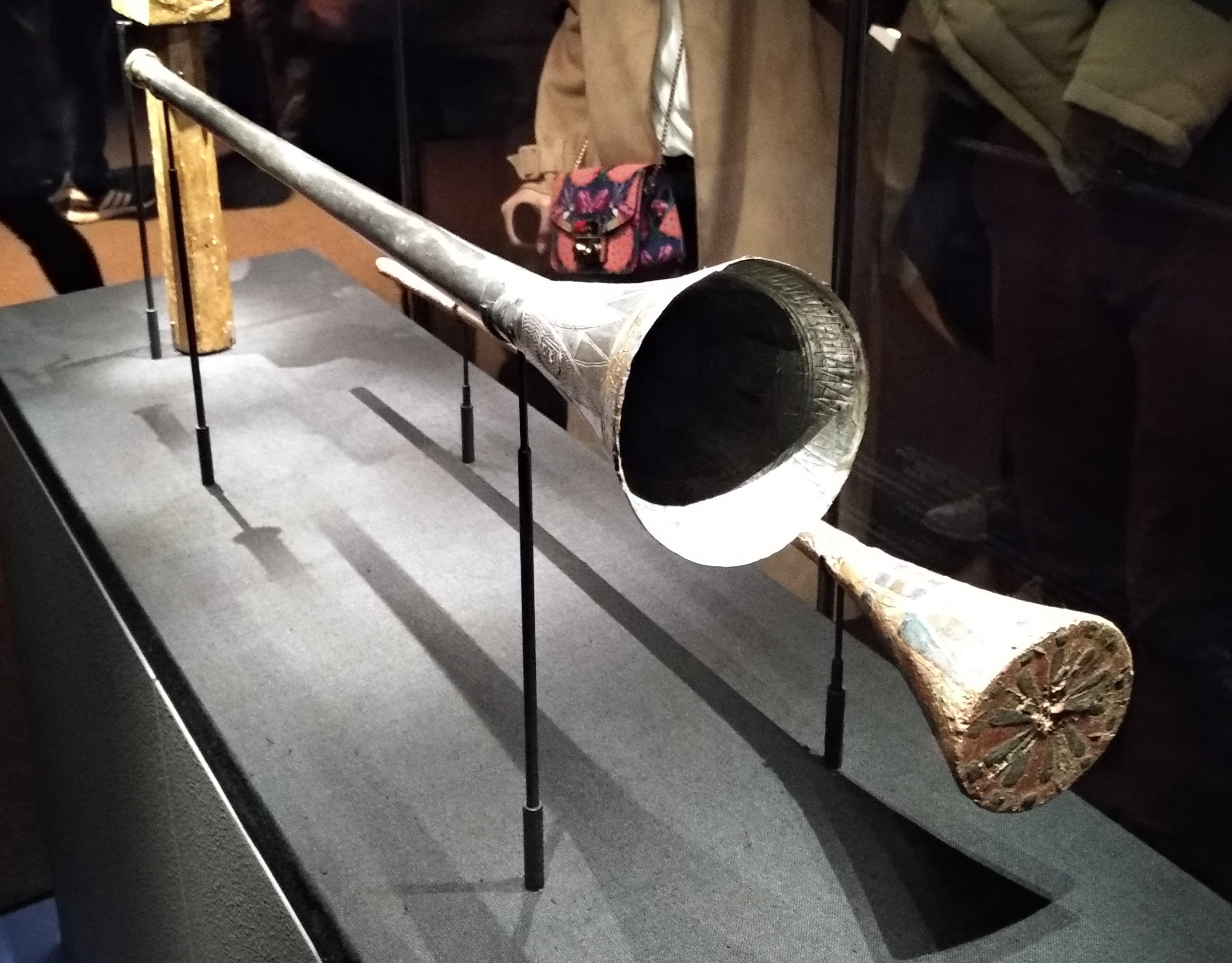 This trumpet includes the engraving of the name and image of Tutankhamun and those of three gods. The musician used the wooden mute painted in bright colours to modulate the sound of the trumpet.